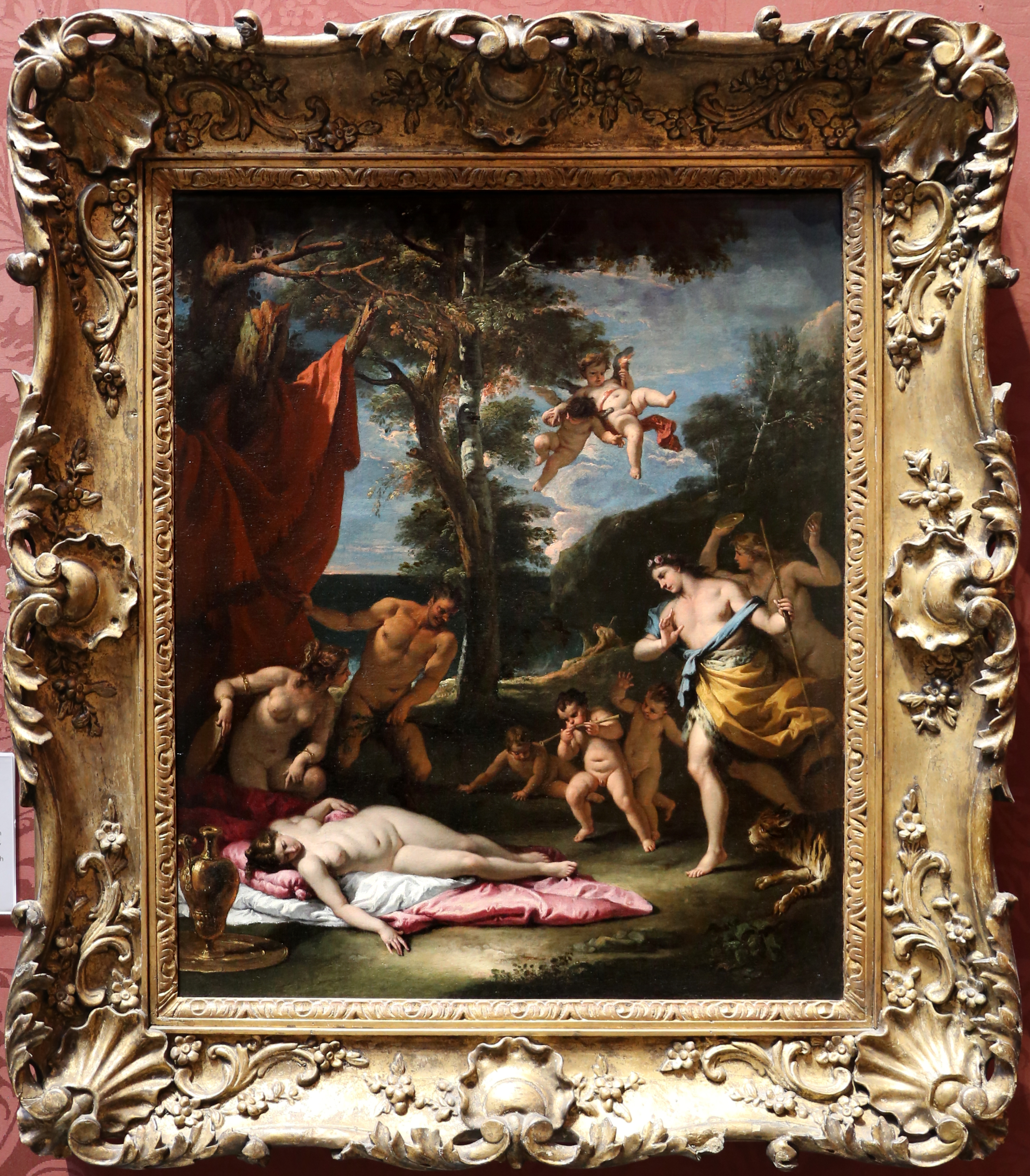 Italian Rococo paintings in the National Gallery, London